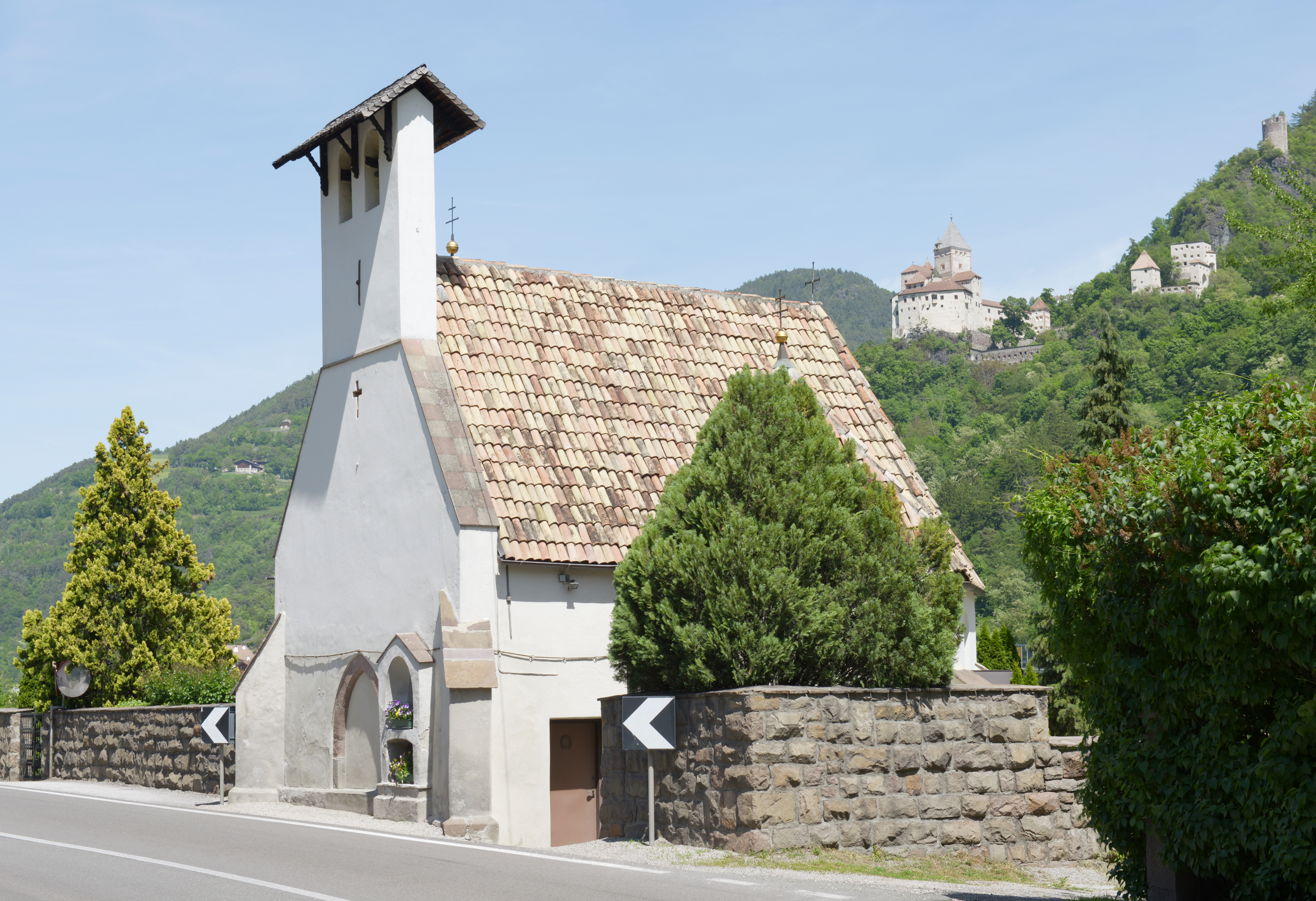 Saint Leonard Church in Kollmann